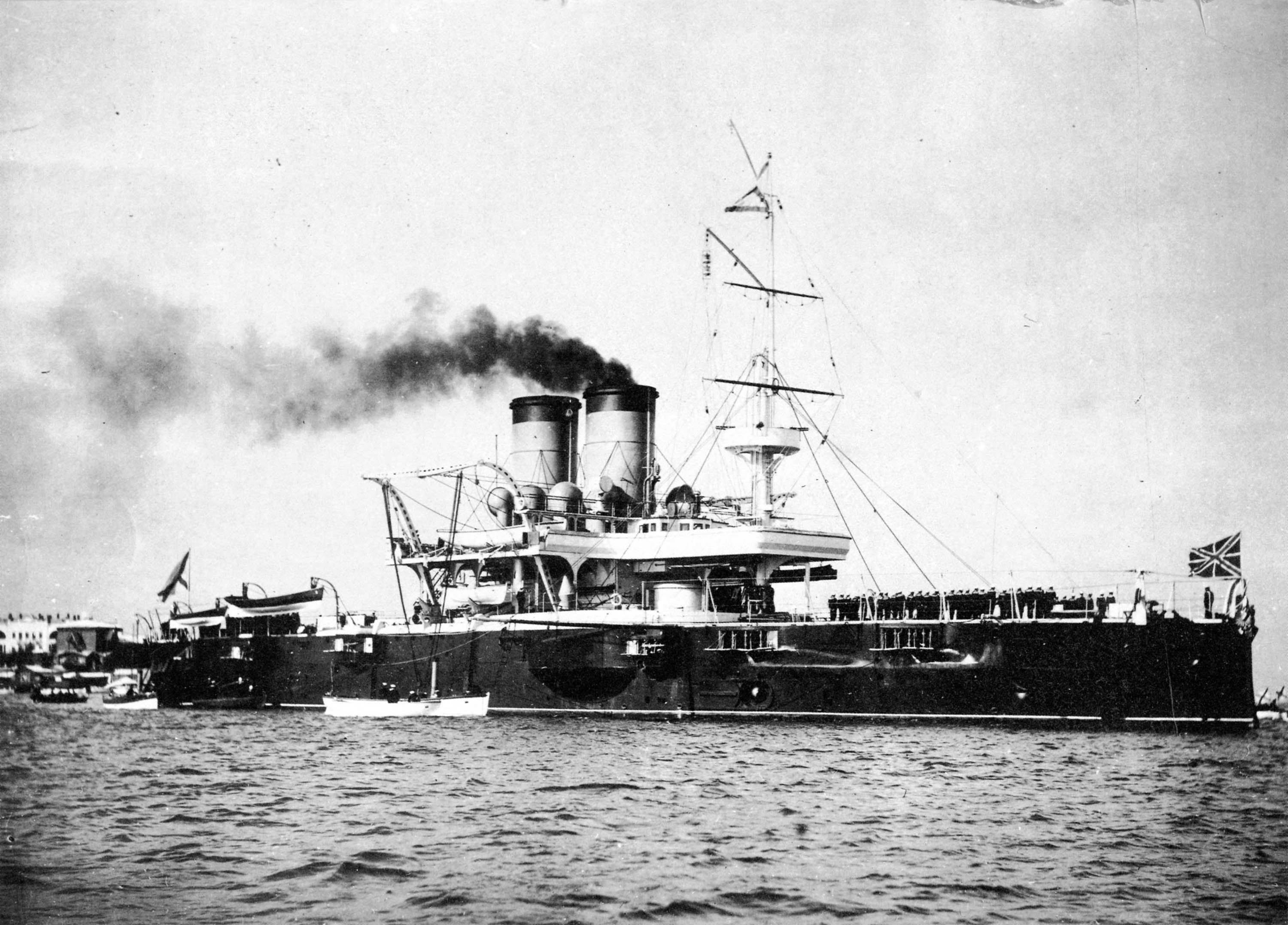 Imperial Russian Ironclad warship Ekaterina II in Sevastopol.